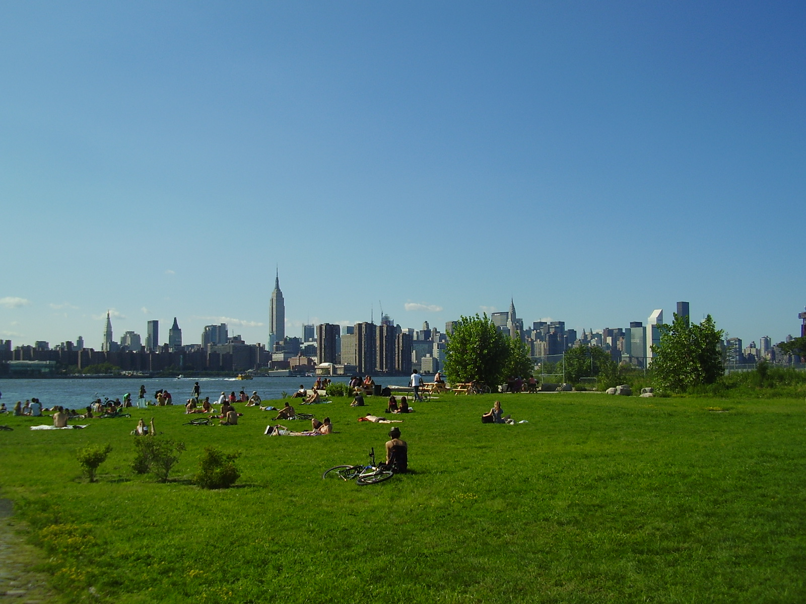 I took this photo and release it under cc-by-sa.